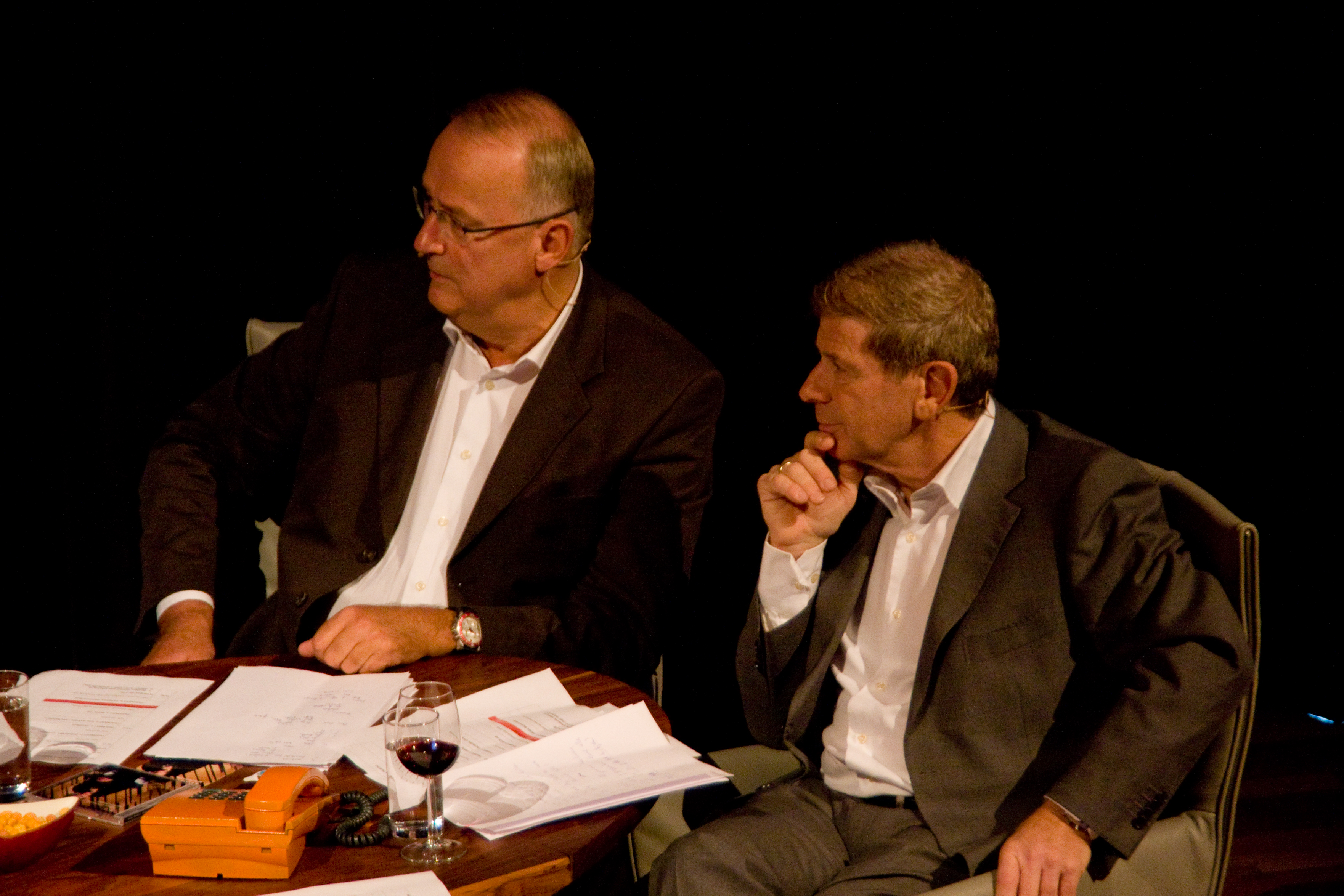 talkshow hosts